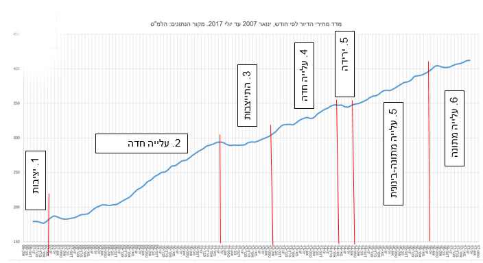 money